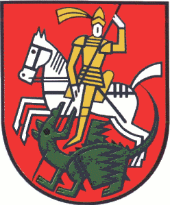 Coat of arms of Bürgel (Thüringen)